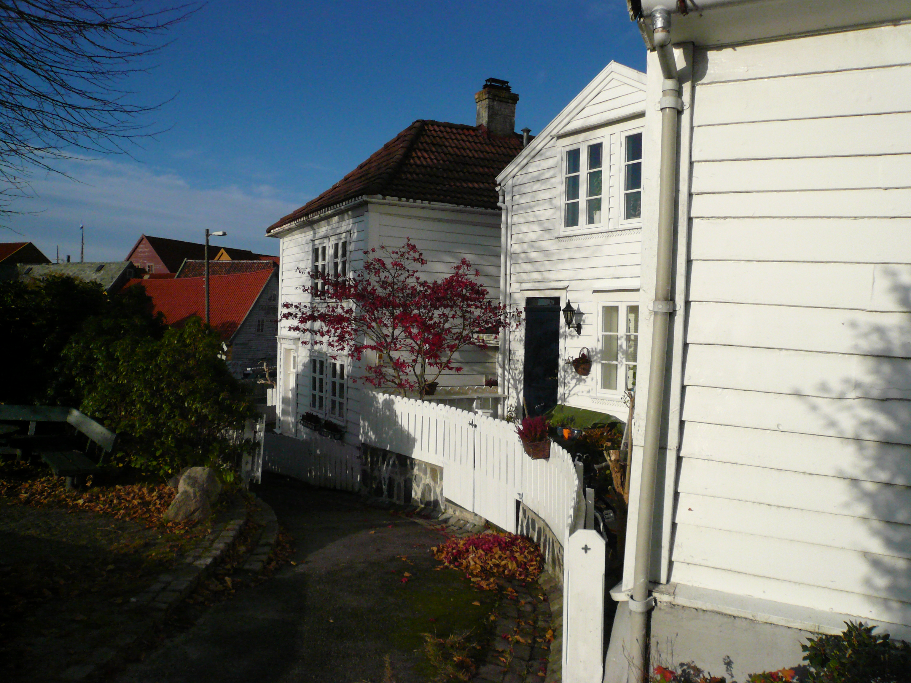 Fjæregrenden, Sandviken, Bergen, Norway